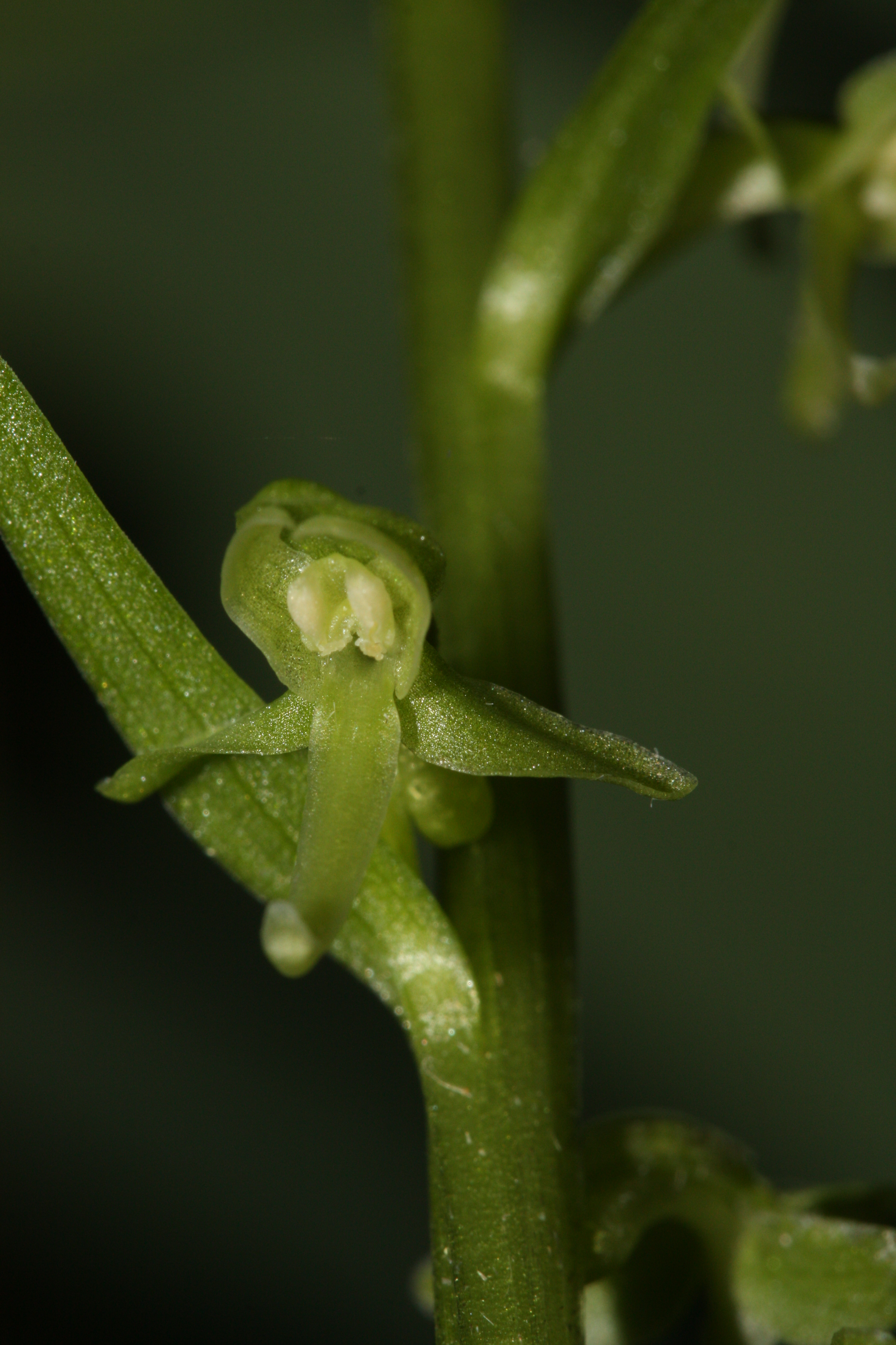 Slender Bog Orchid syn. Habenaria saccata Greene